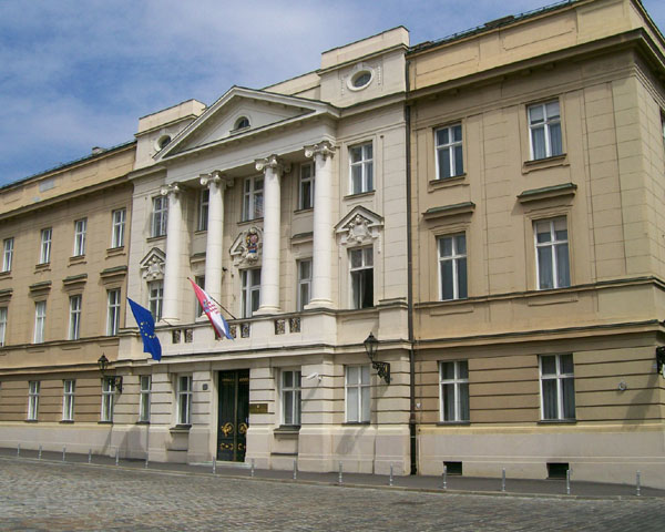 Croatian Assembly (Hrvatski sabor)